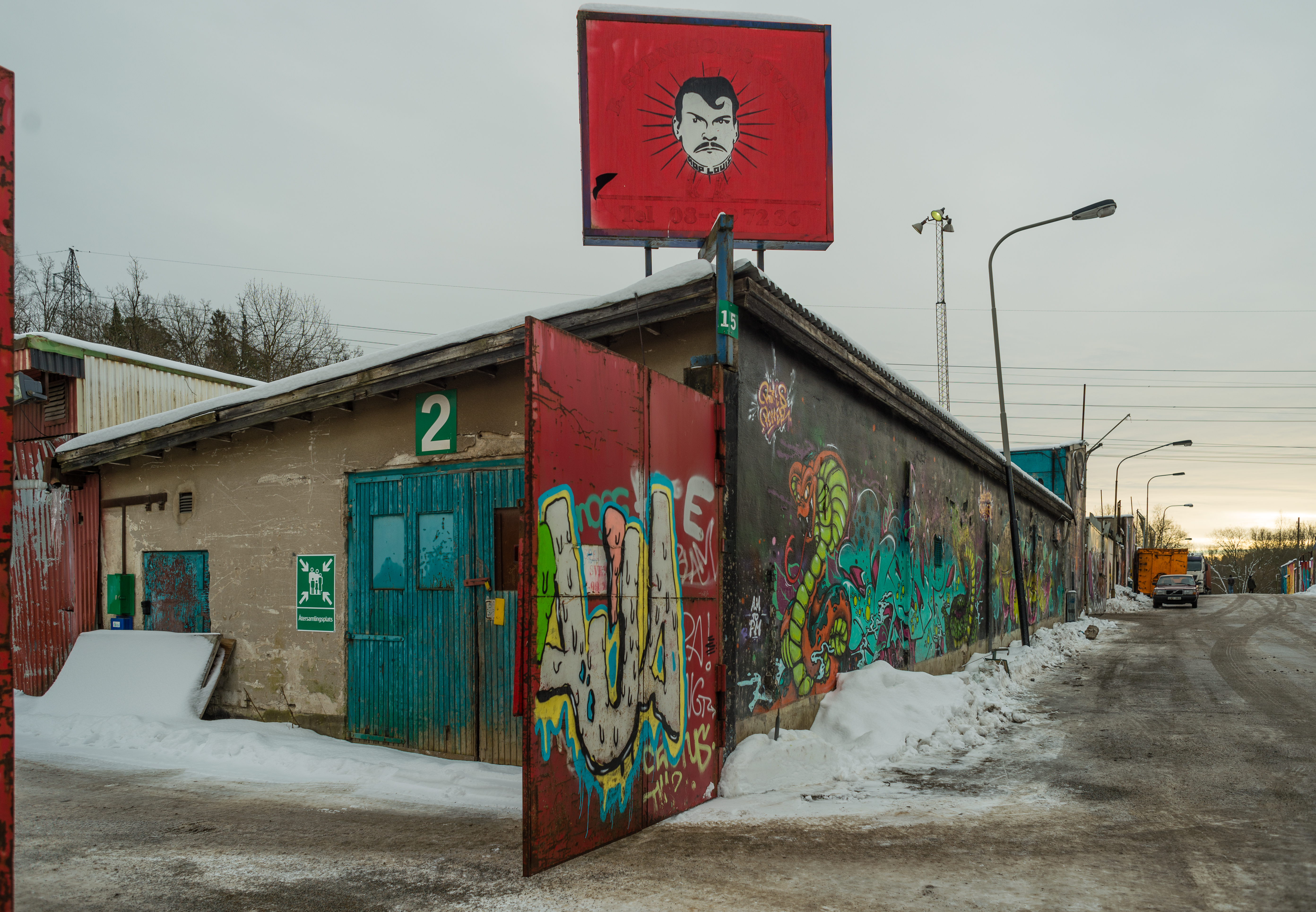 Snösätra is a an old industrial area from the fifties outside Stockholm. Many buildings are abandoned or in very poor condition,The area (with permission from several property owners) has become a center for street art.